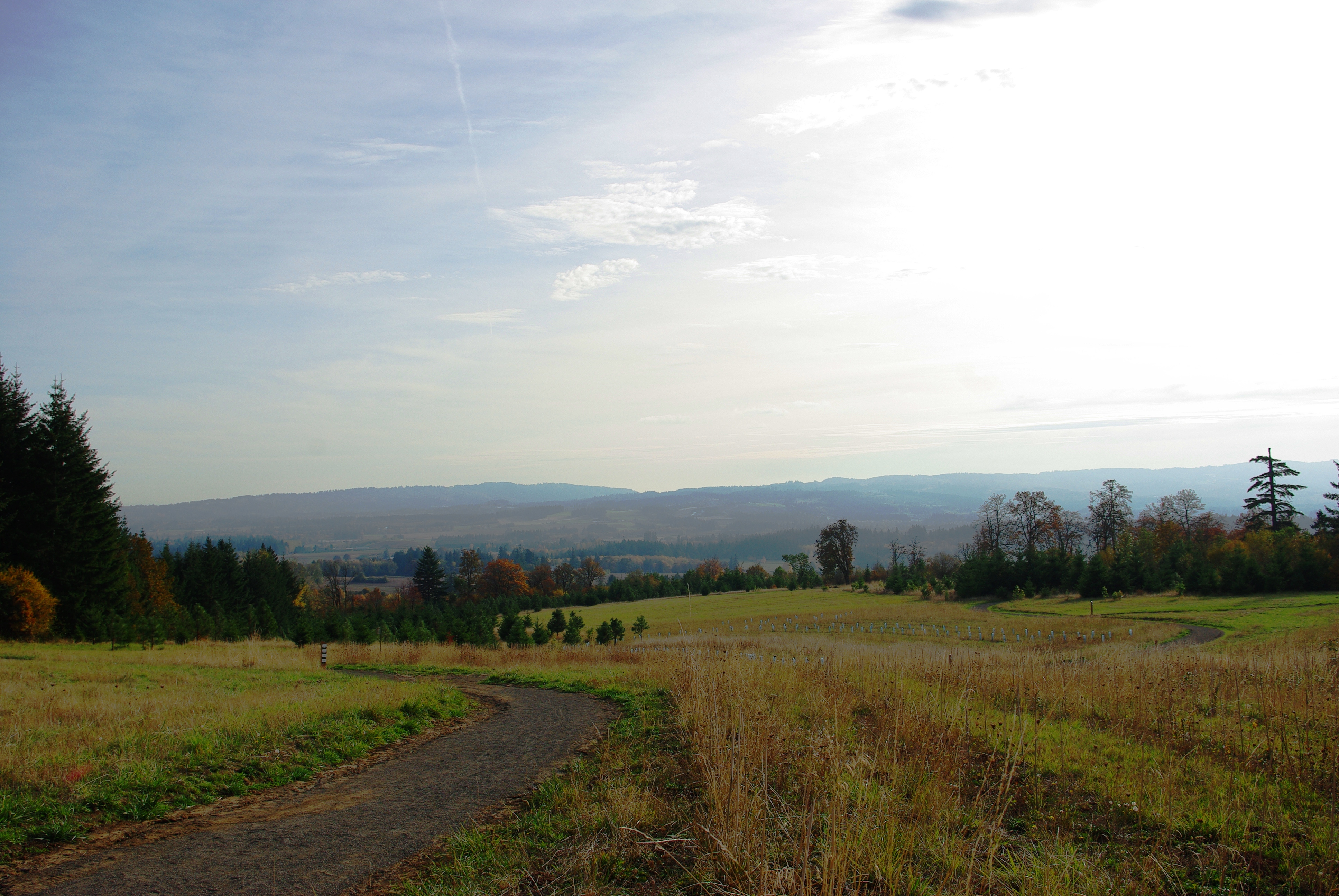 Southern slope of Cooper Mountain at Cooper Mountain Nature Park in Oregon.